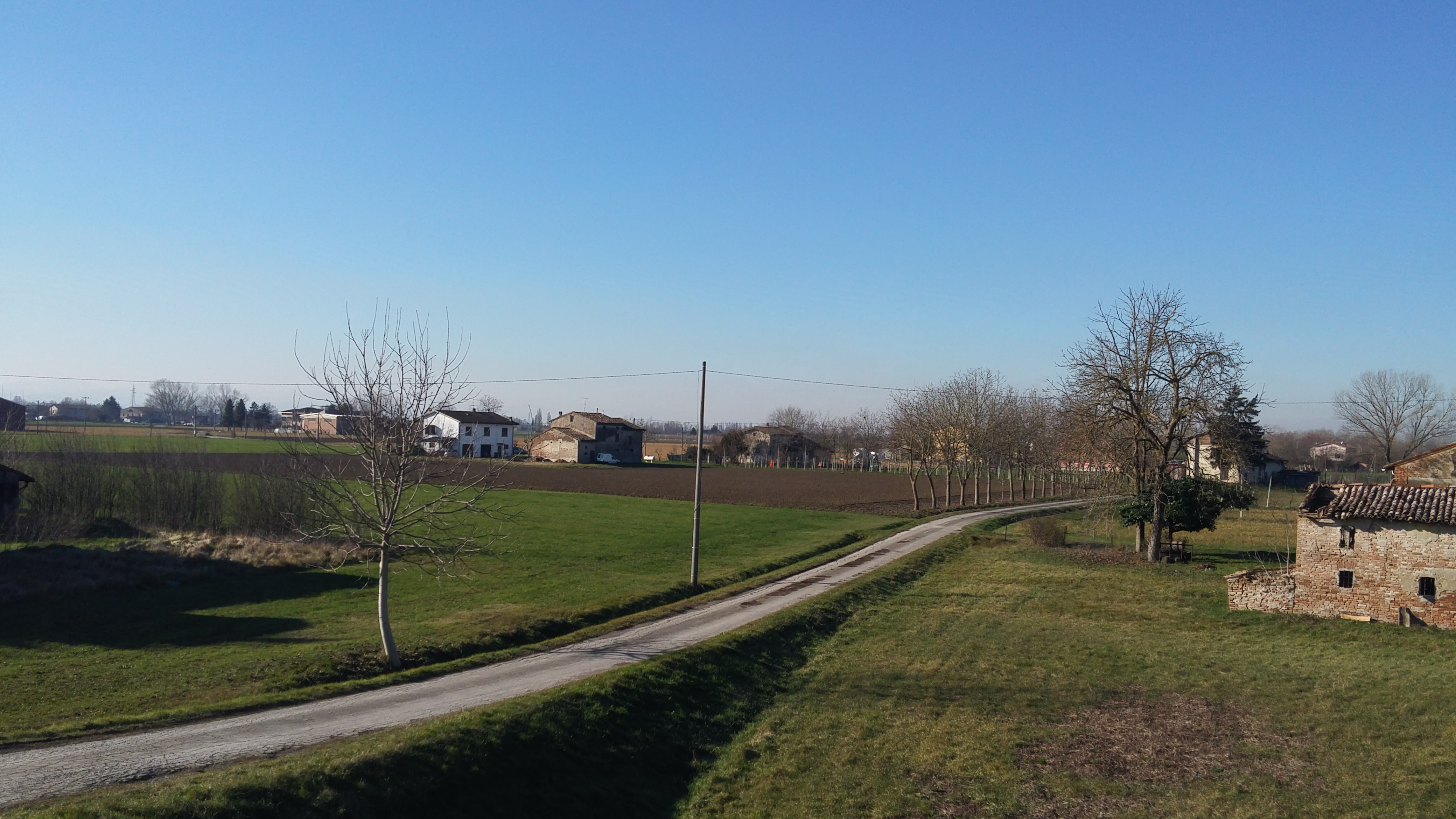 Copezzato Village